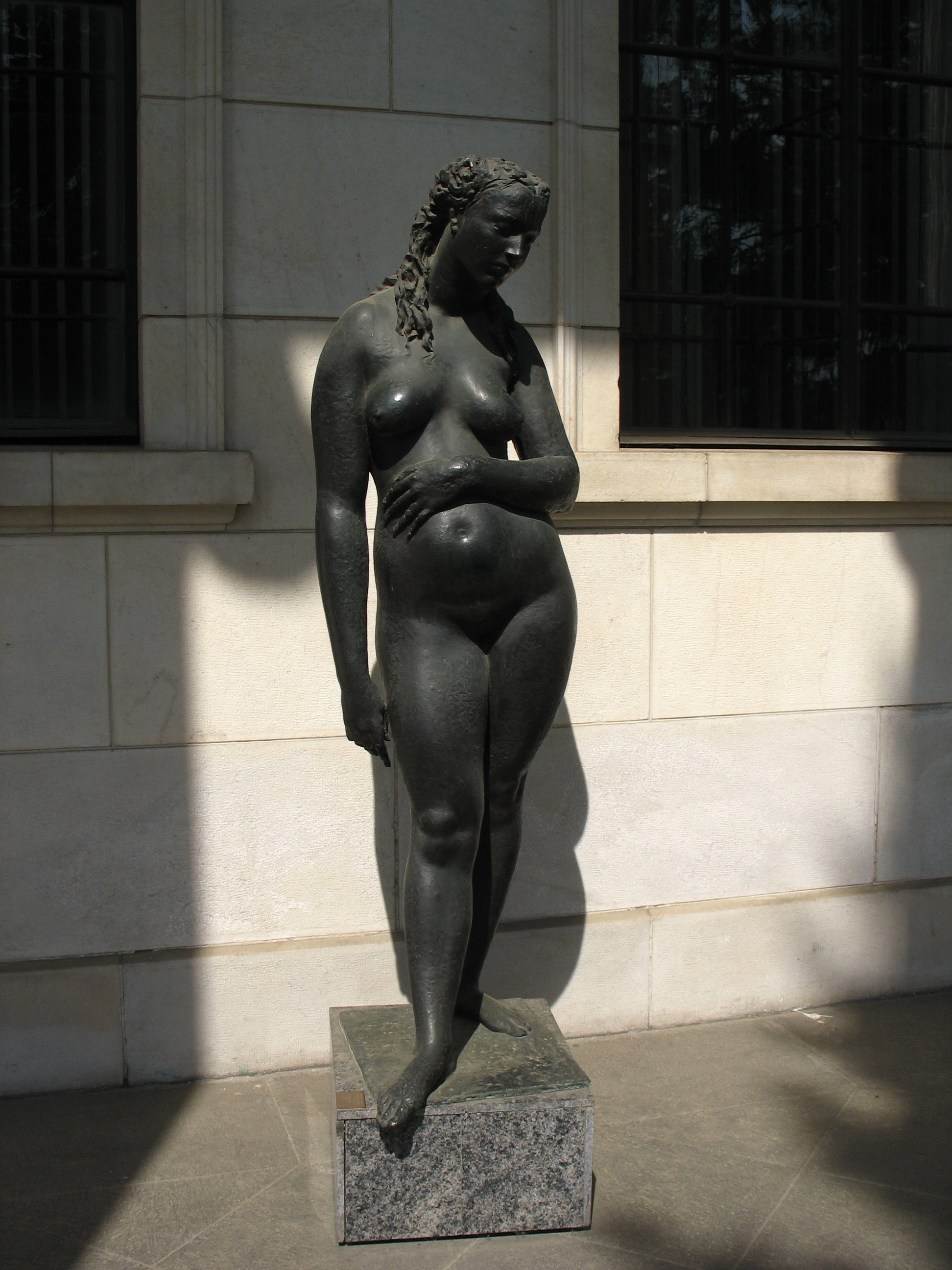 Sculpture of Pushkin Museum of Fine Arts in Moscow